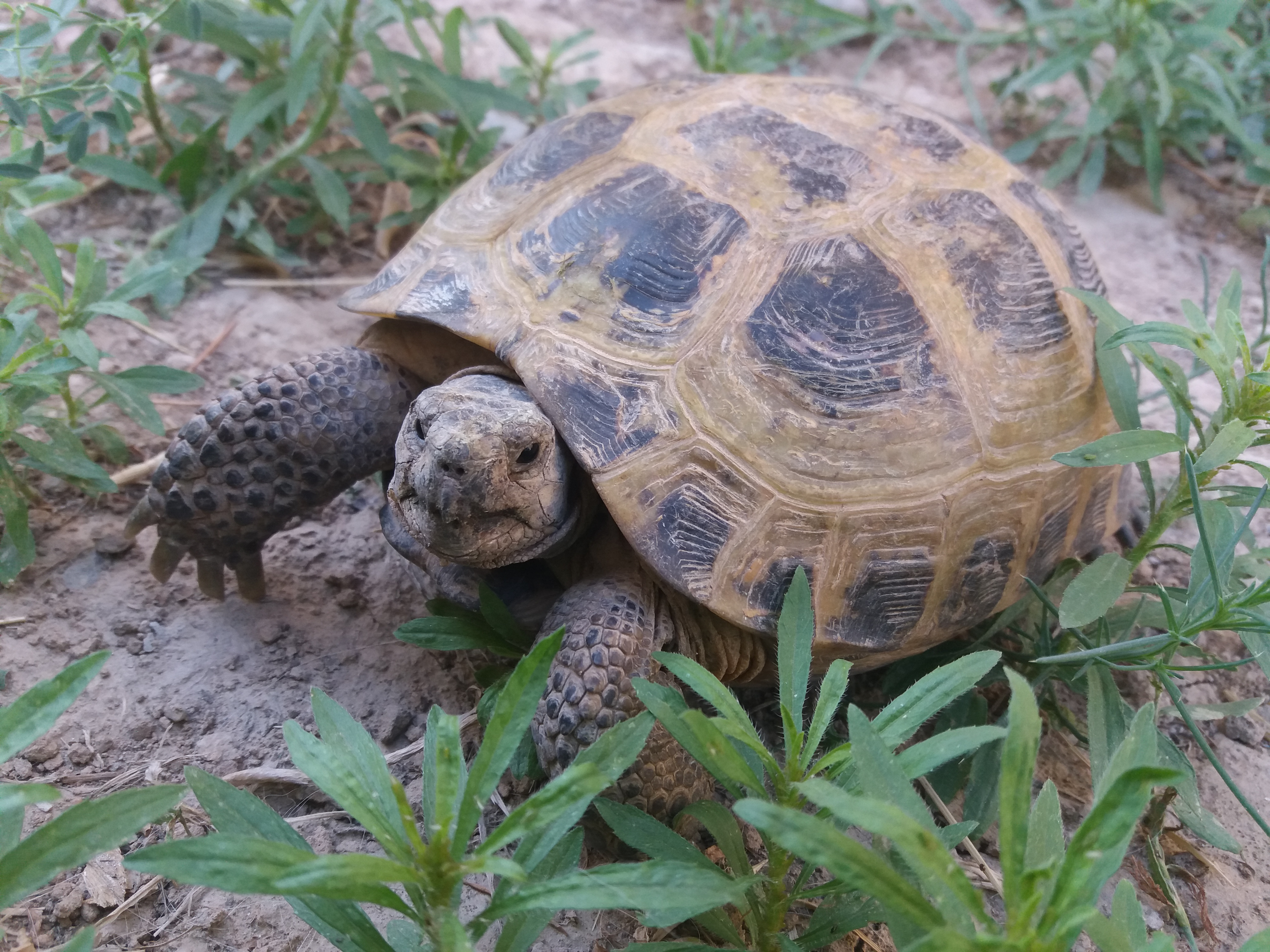 Среднеазиатская черепаха